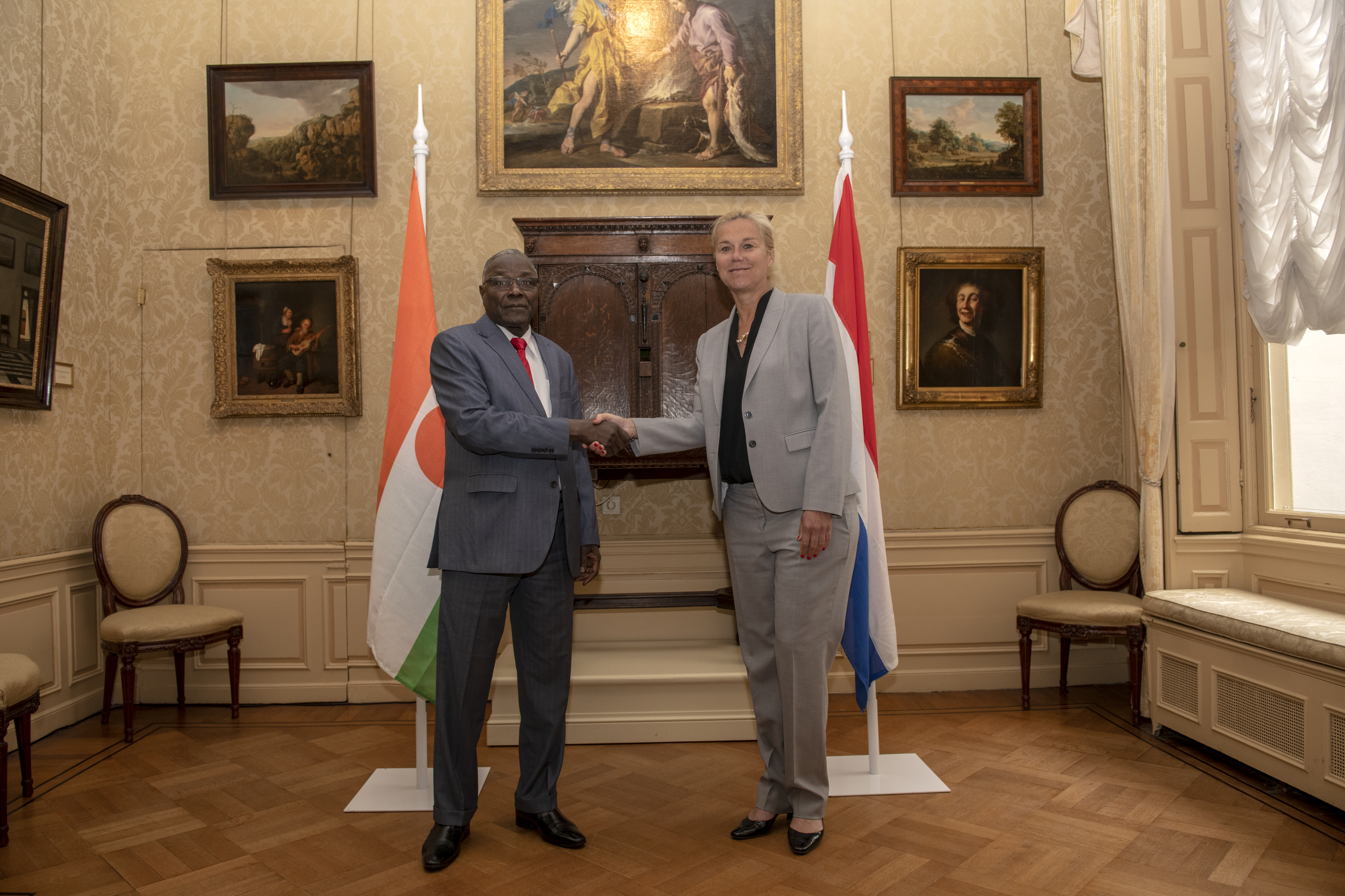 De minister Blok en Kaag ontvingen vandaag de ministers van Buitenlandse Zaken en van Justitie uit Niger. Minister Blok, op Twitter: 'Productive meeting on Dutch-Nigerien relations and regional developments with ministers Ankourao and Amadou of Niger. Discussed core issues that affect both Africa an Europe such as human trafficking, smuggling and security cooperation.' Minister Kaag, op Twitter: 'Reunion fructueuse avec Ministre des Affaires Etrangeres du Niger et Ministre de la Justice. Nous avons discute l'impact de la stabilite au developpement et la cooperation pour les annees prochaines.'